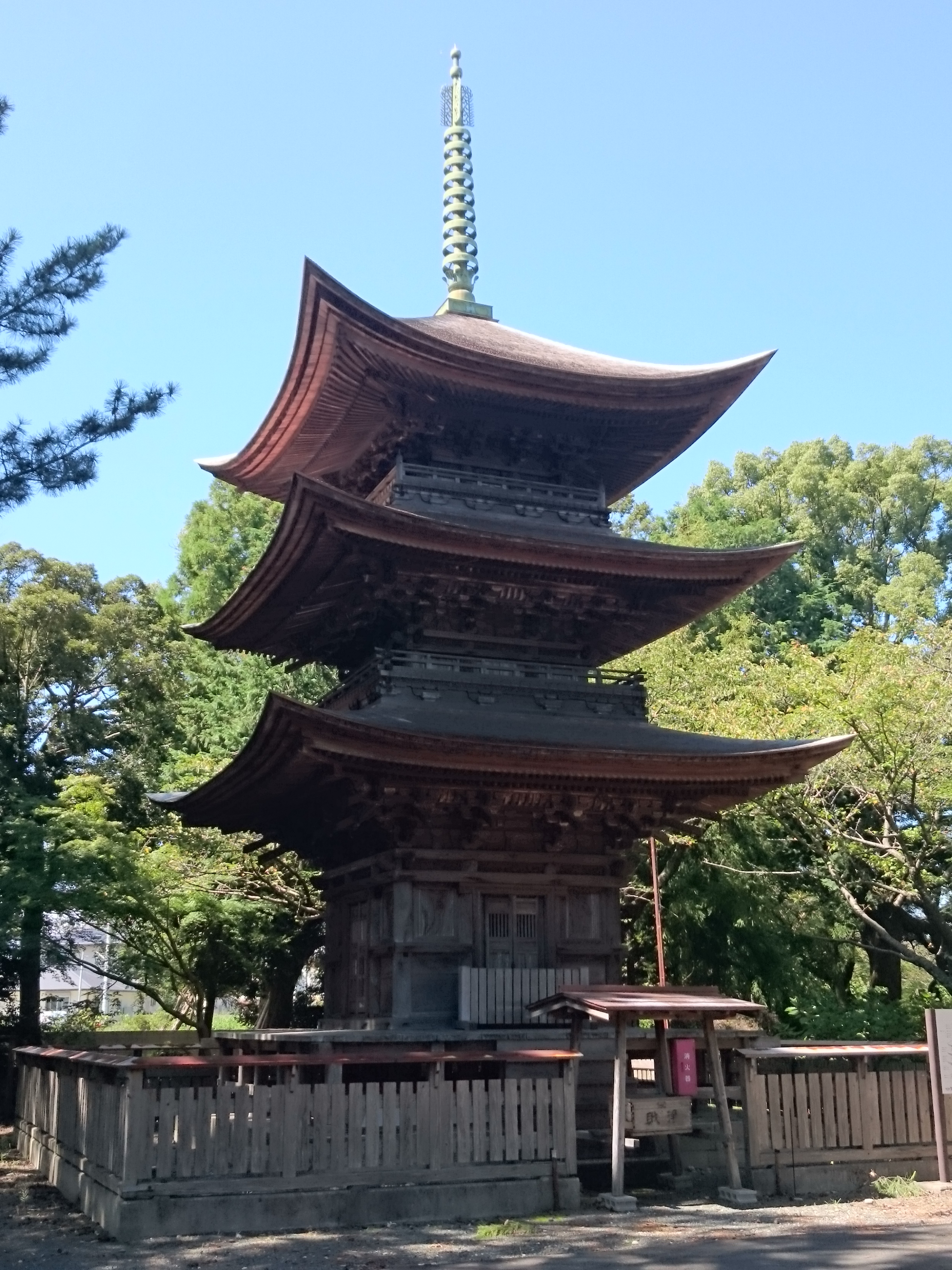 Sanmyoji (三明寺), located at 37 Hadori, Toyokawa, Aichi, Japan